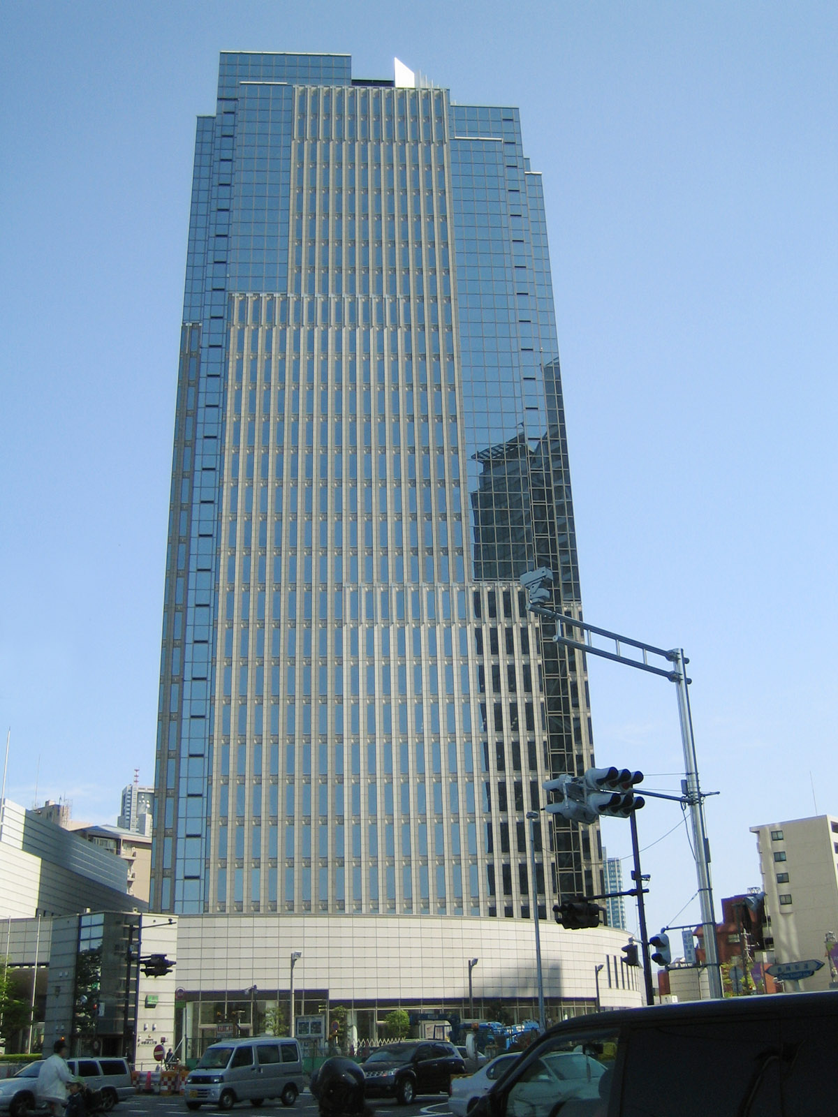 Harmony Square (ハーモニースクエア), at Nakano, Tokyo, Japan